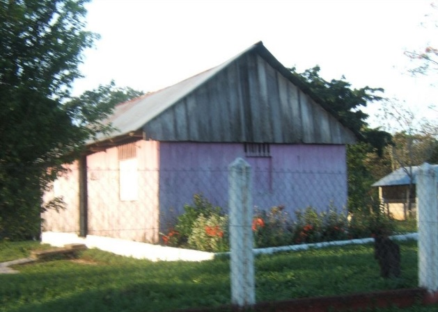 This is a picture of a town called Juan de la Luz, jesus carranza veracruz, shows the local primary school as seen from main street, taken in 2008